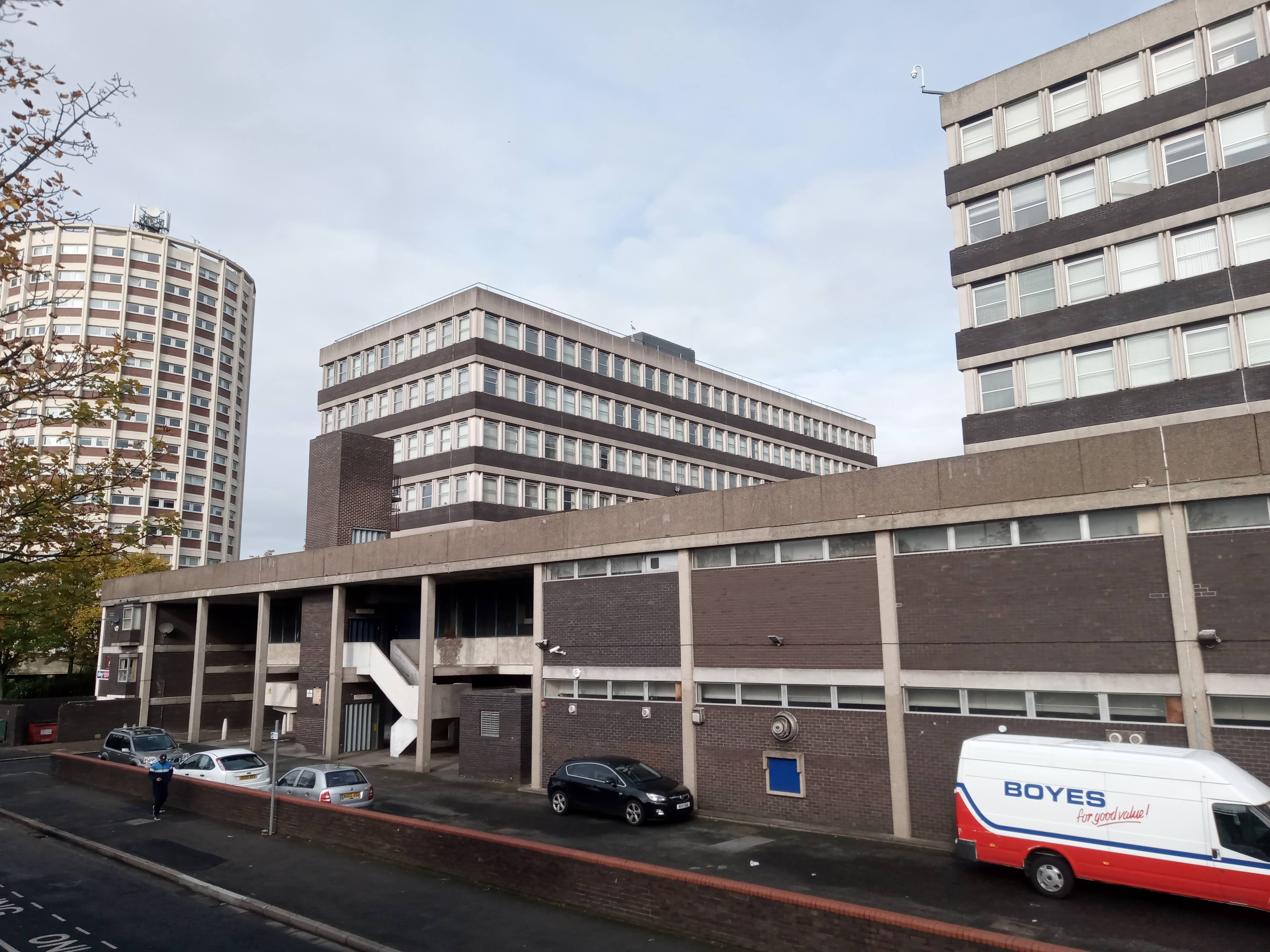 Billingham